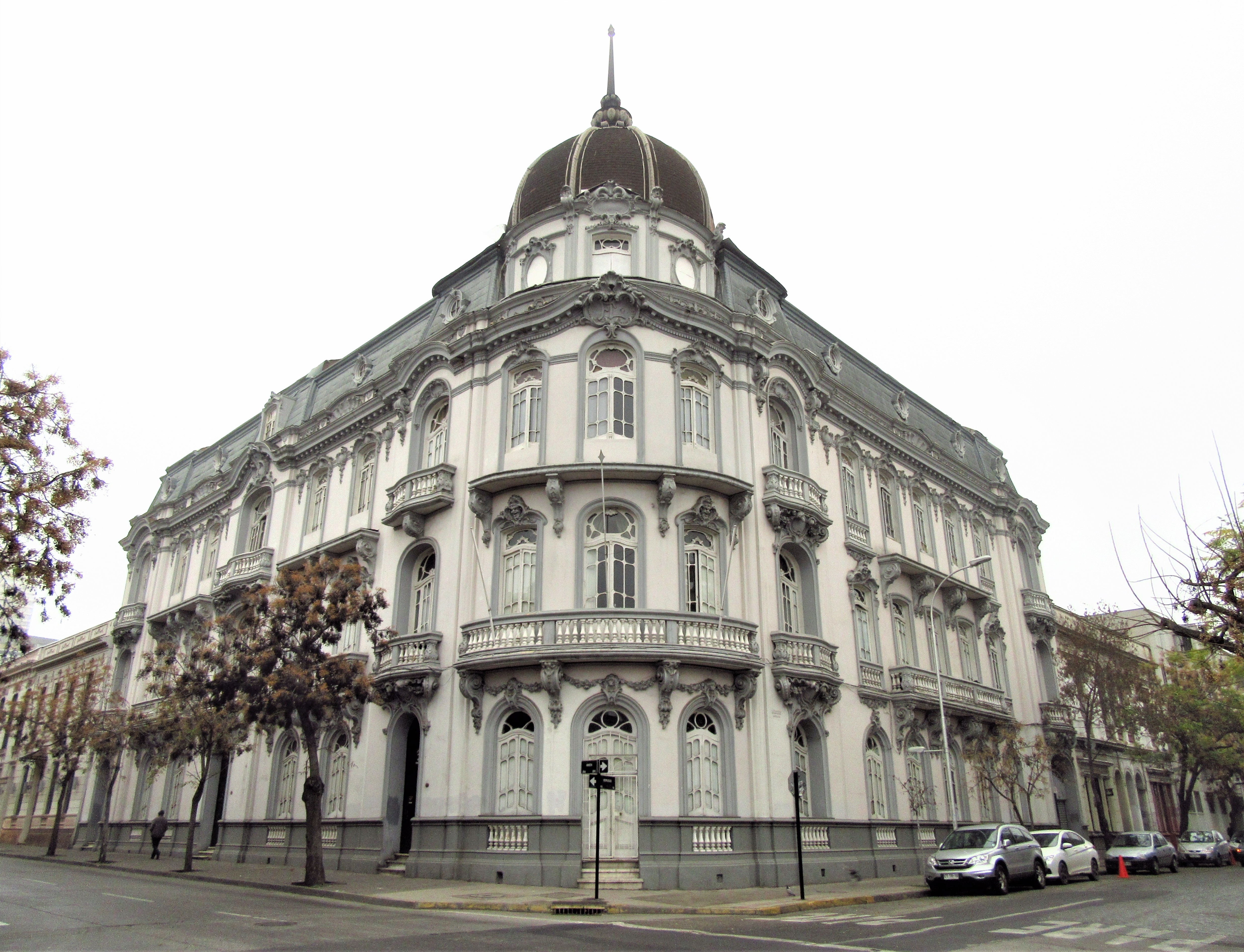 2017 in Santiago de Chile